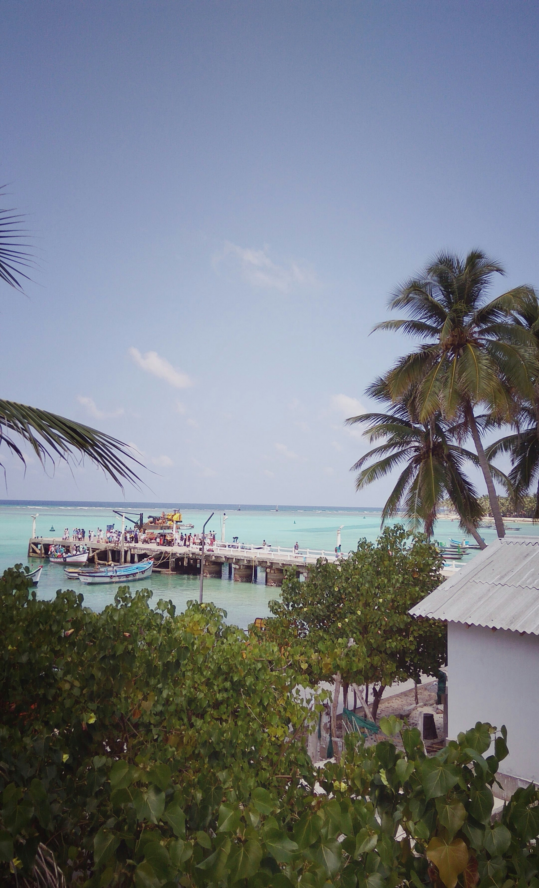 Embarcation jetty in Lagoon is the main arrival station via sea to the island exept in monsoon season.